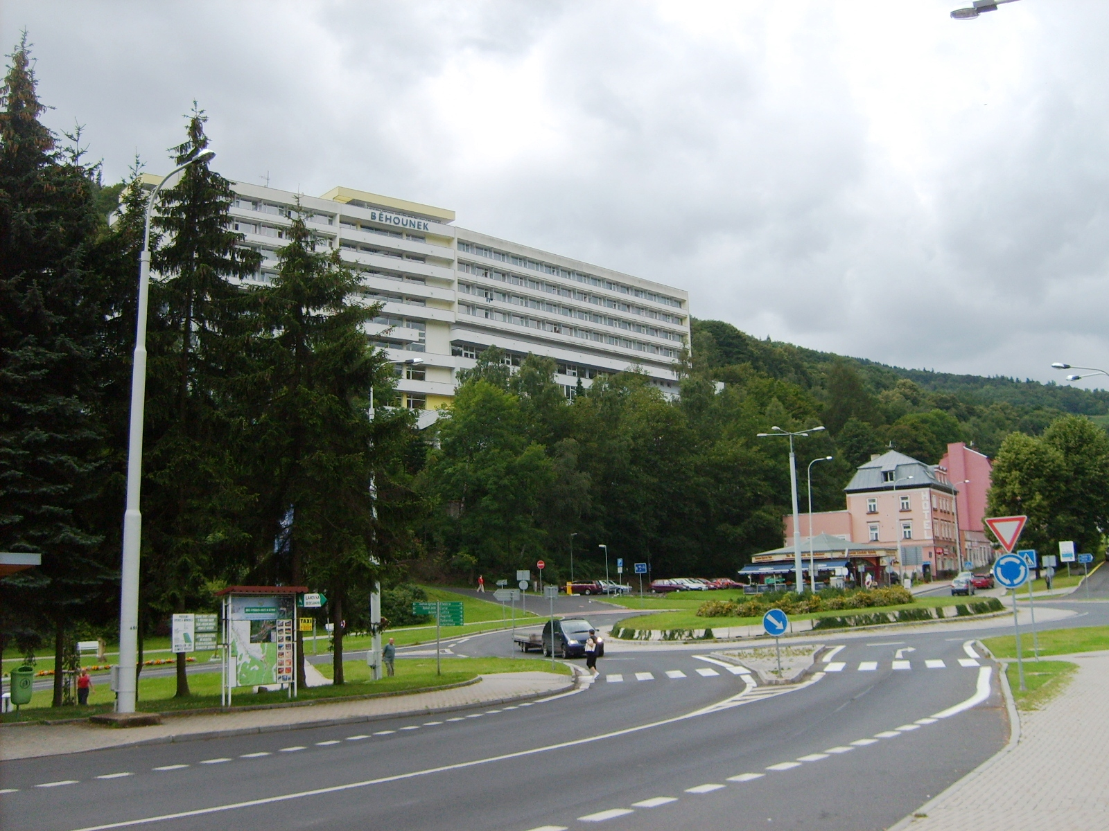 Běhounek sanatorium in Jáchymov spa town.